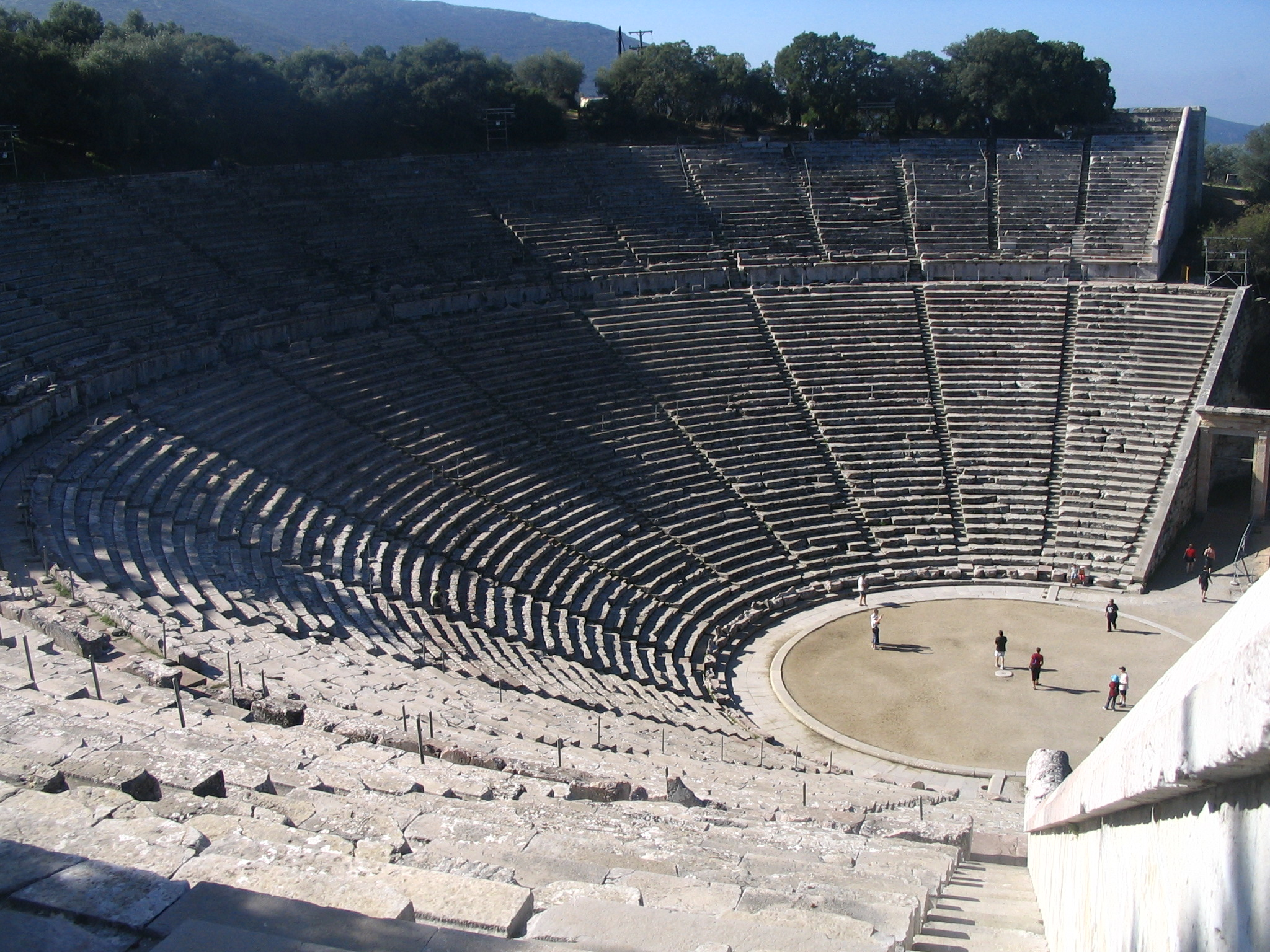 Nafplio, Greece - Ancient Epidaurus Theatre Site